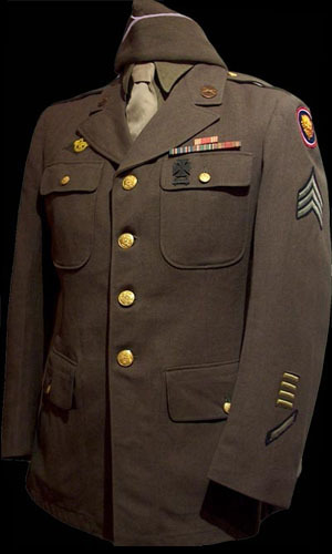 Photo of a service coat used in WWII